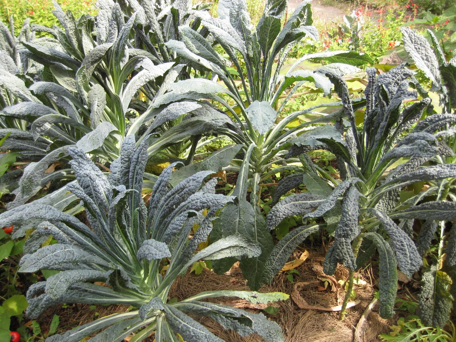 Photographed at Brooklyn Botanic Garden (New York) in September